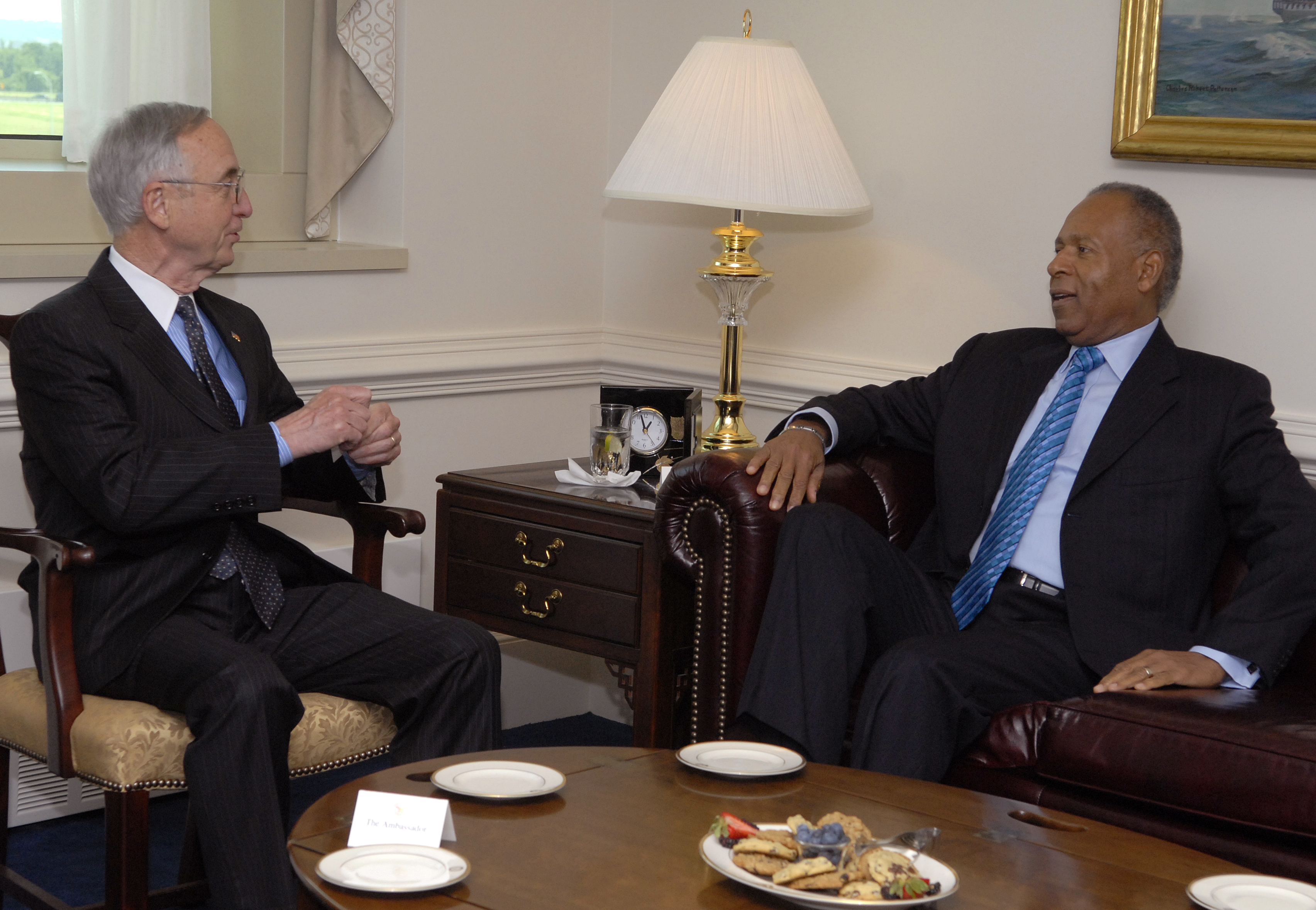 Deputy Secretary of Defense Gordon England, left, talks with Prime Minister of Trinidad and Tobago Patrick Manning during a closed door meeting inside the Pentagon June 23, 2008. Defense Dept. photo by U.S. Navy Petty Officer 2nd Class Molly A. Burgess.